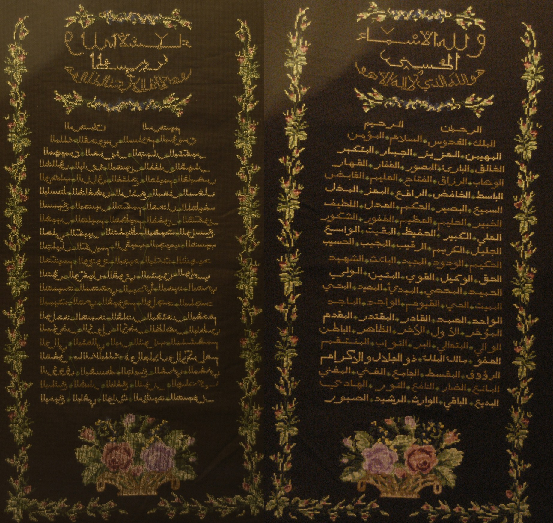 Names of God in cross-stitch. Left is reverse view. Ramallah 2006.